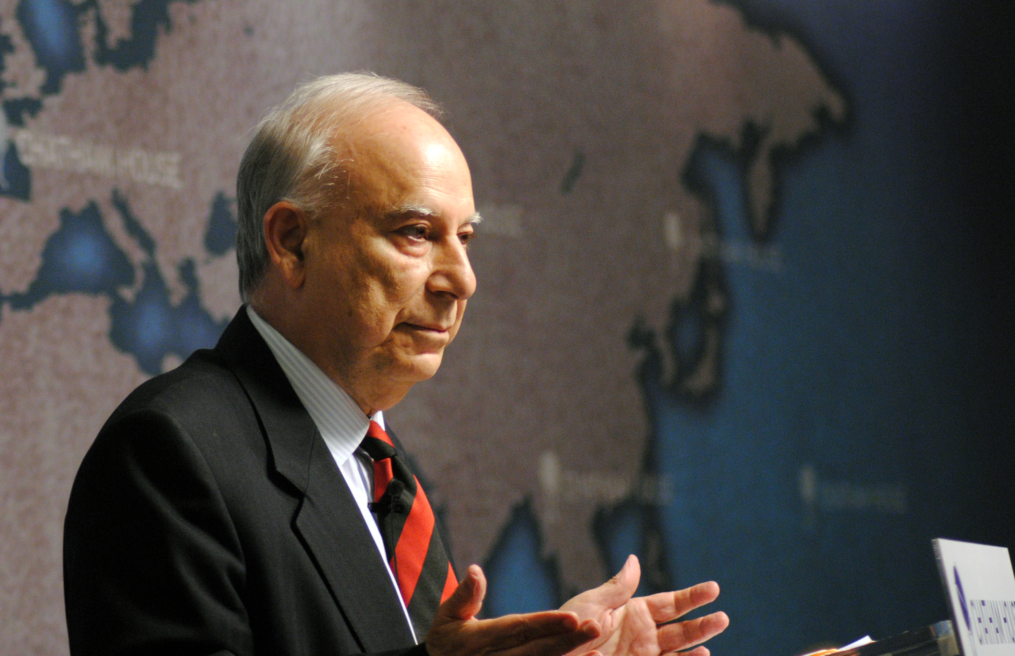 Muslim Tribes and the War on Terror, 25 June 2013 cht.hm/122Yzzn